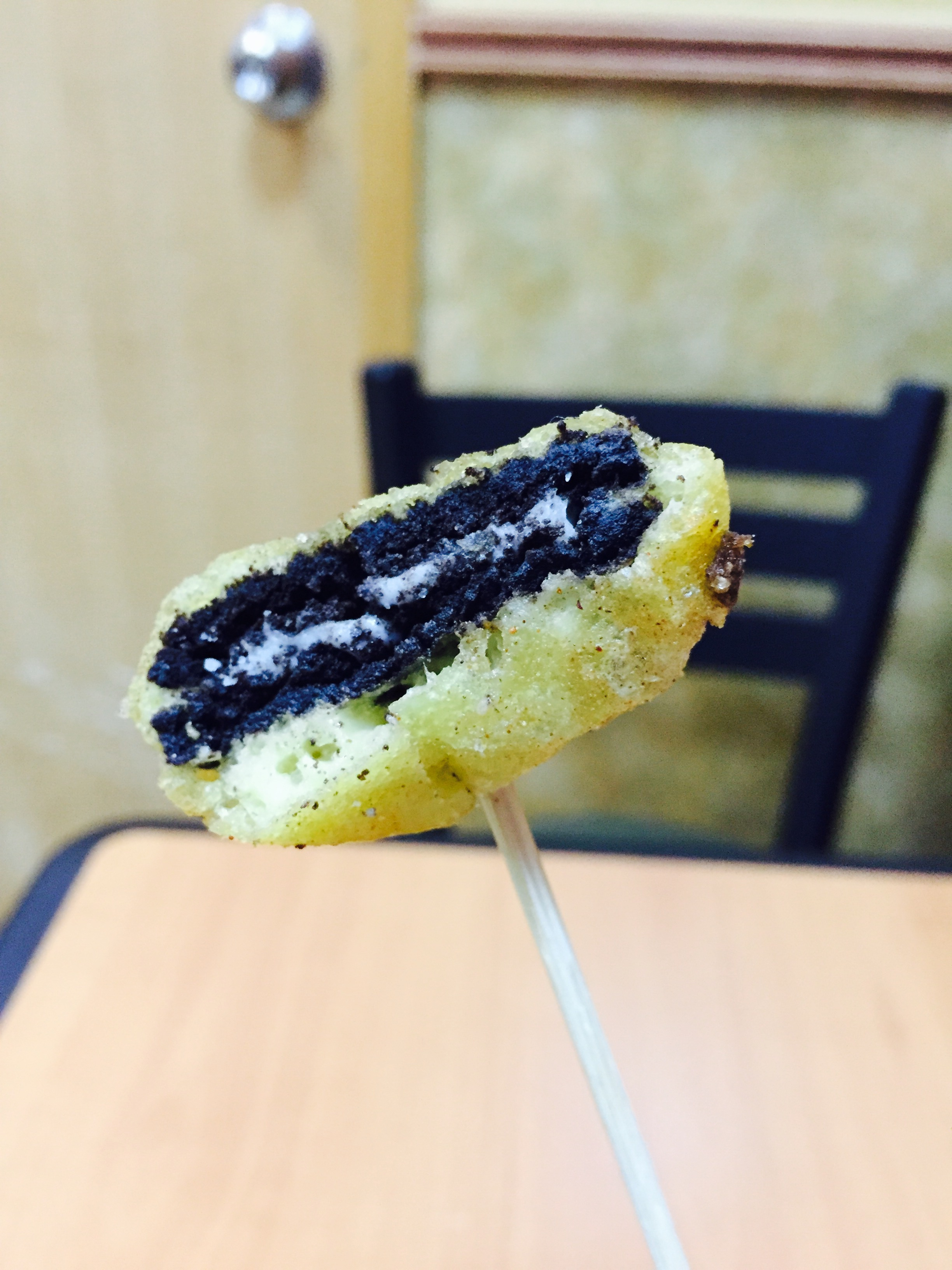 Deep Fried Oreo2